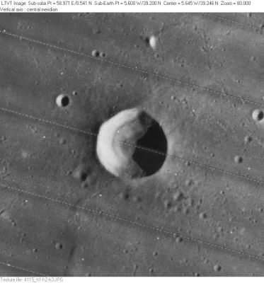 Kirch lunar crater - Lunar Orbiter IV image LO-IV-115H